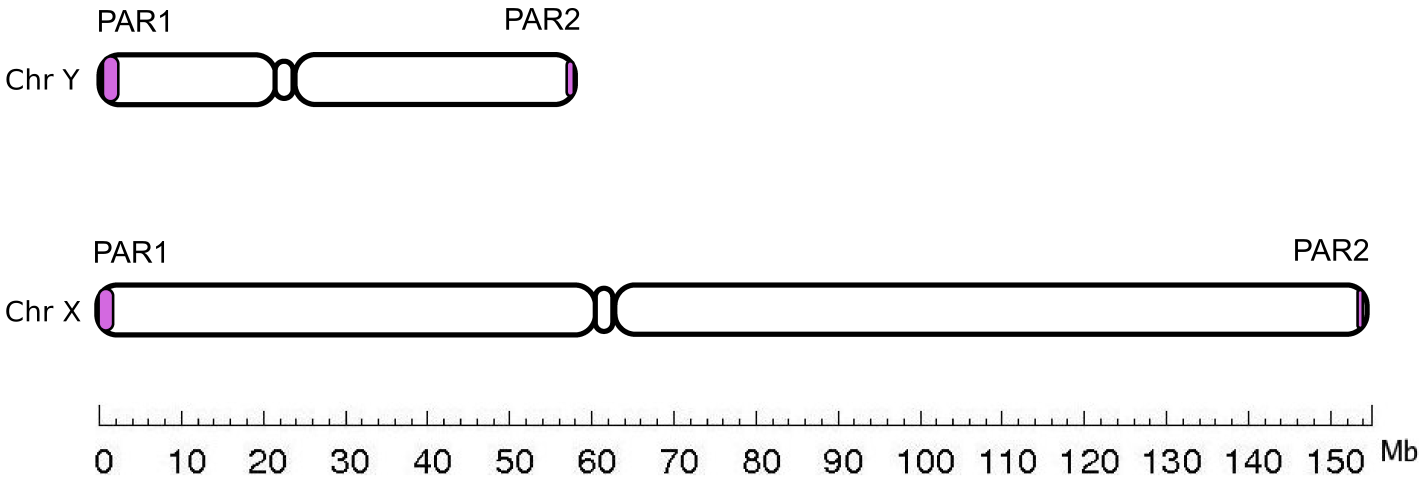 Schematic representation of human sex chromosomes. PAR1 and PAR2 are pseudoautosomal regions at both termini of the sex chromosomes.